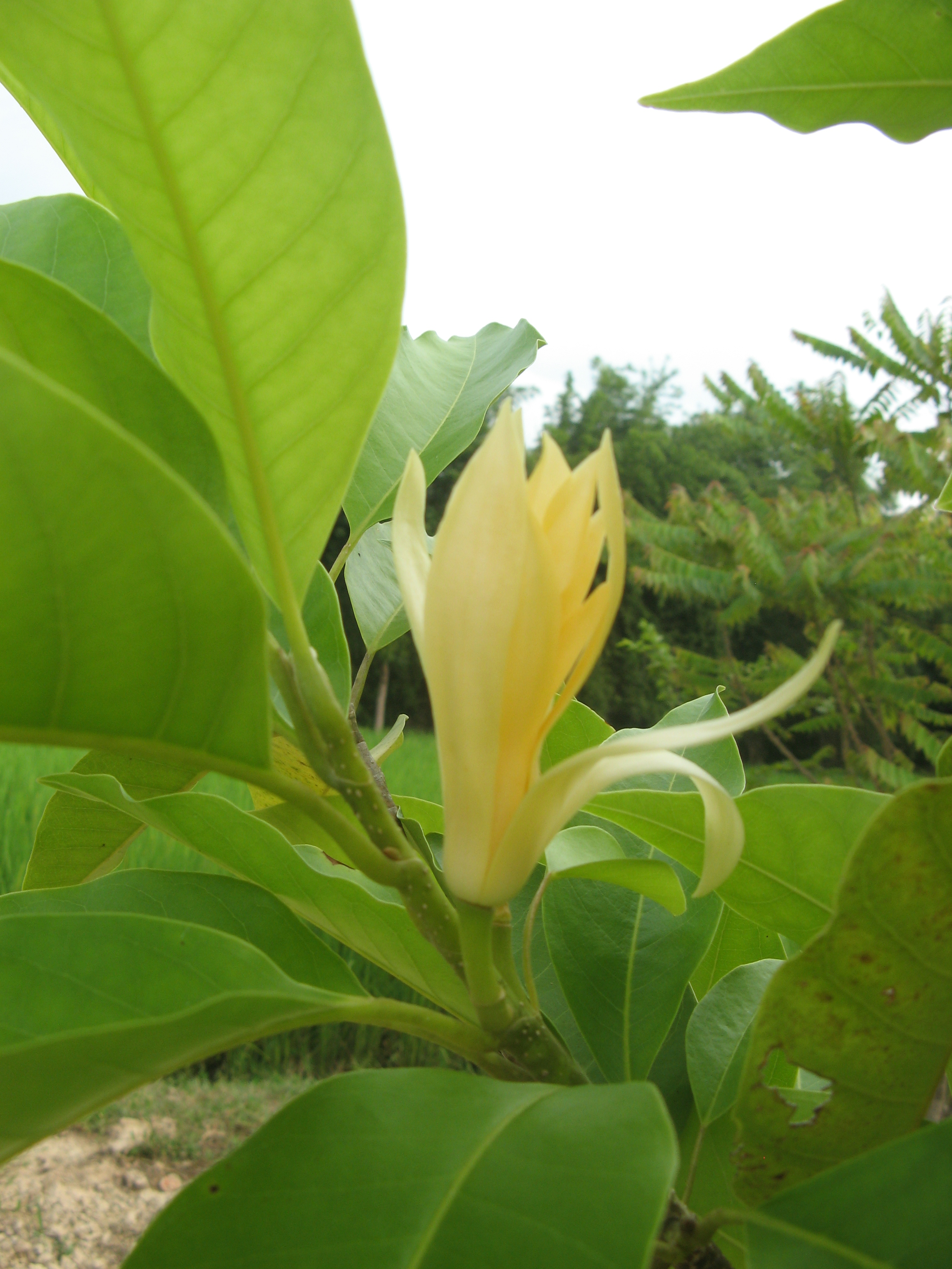 Magnolia champaca